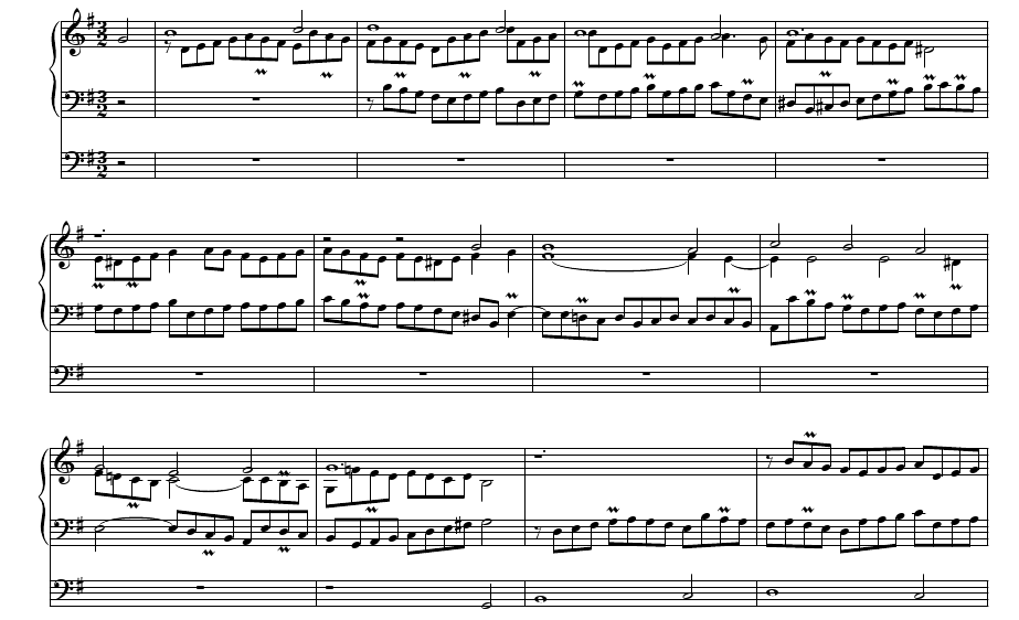 Chorale prelude for organ by Johann Gottfried Walther, fifth verse of "Allein Gott in der Höh'"